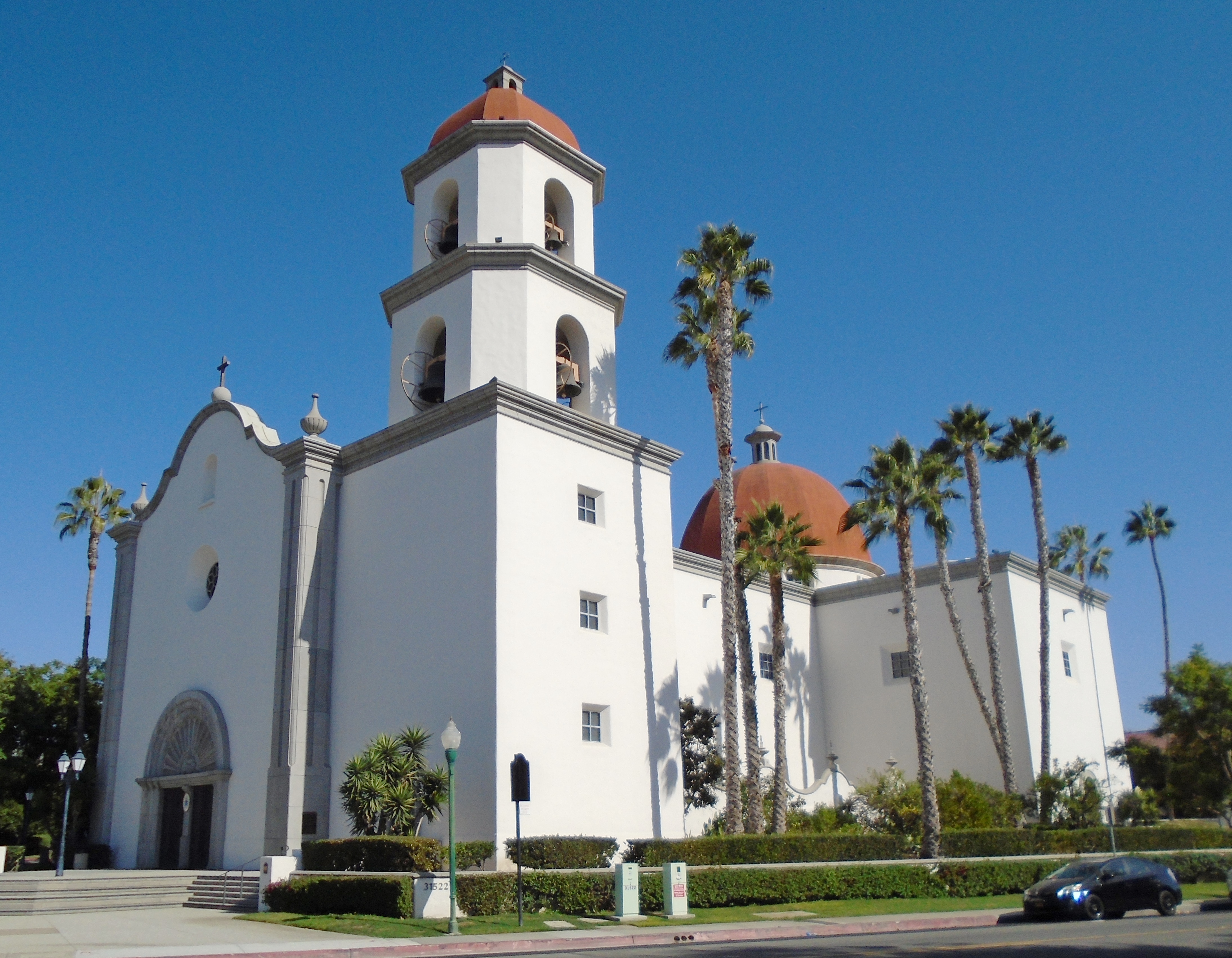 The Mission Basilica San Juan Capistrano is a Catholic parish in the Diocese of Orange in California. The parish church is located just northwest of the historic Mission San Juan Capistrano in the city of San Juan Capistrano, California. Completed in 1986, it was designated a minor basilica in 2000 and a national shrine in 2003.